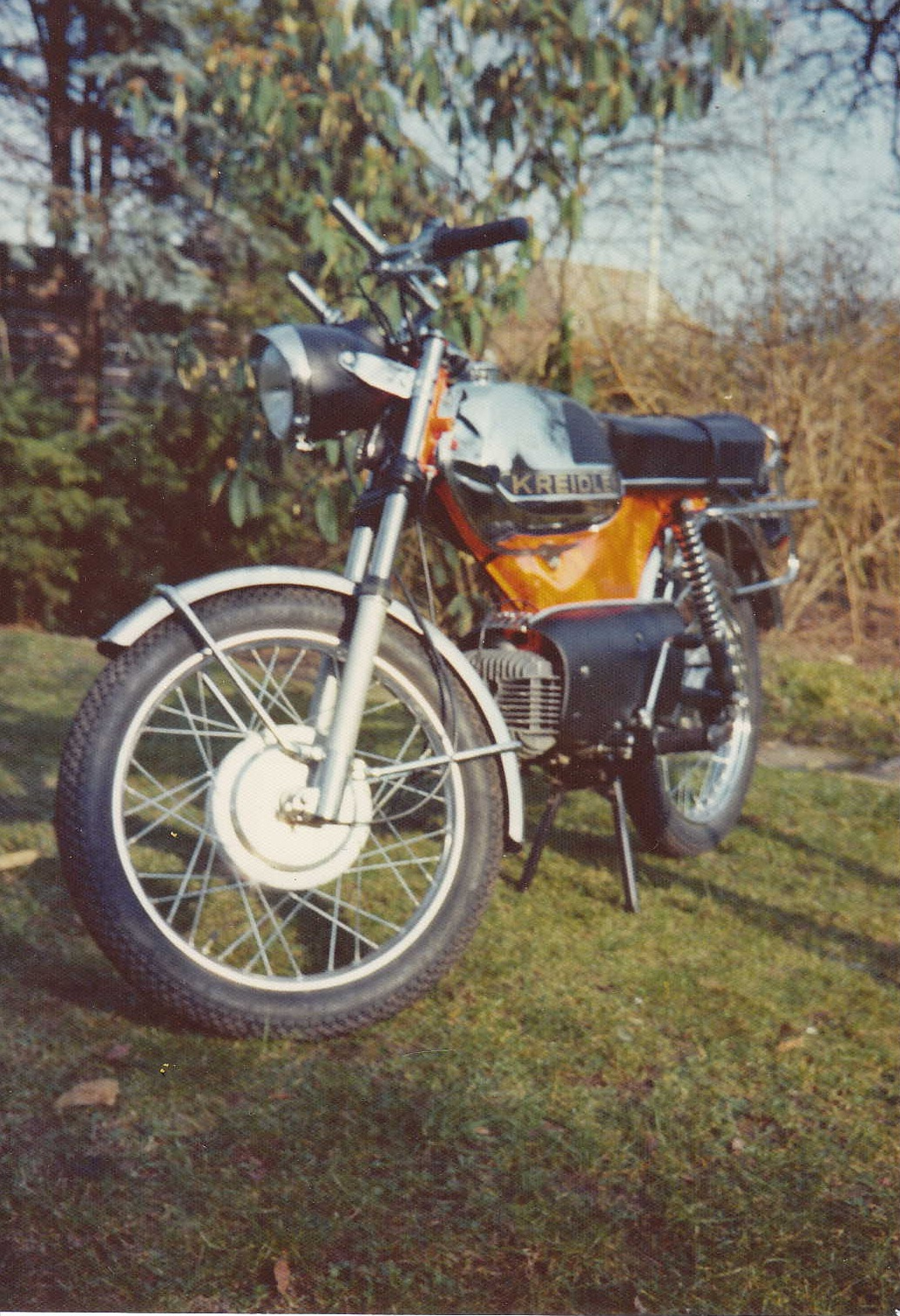 Lovlig 30kmt - 3 gear